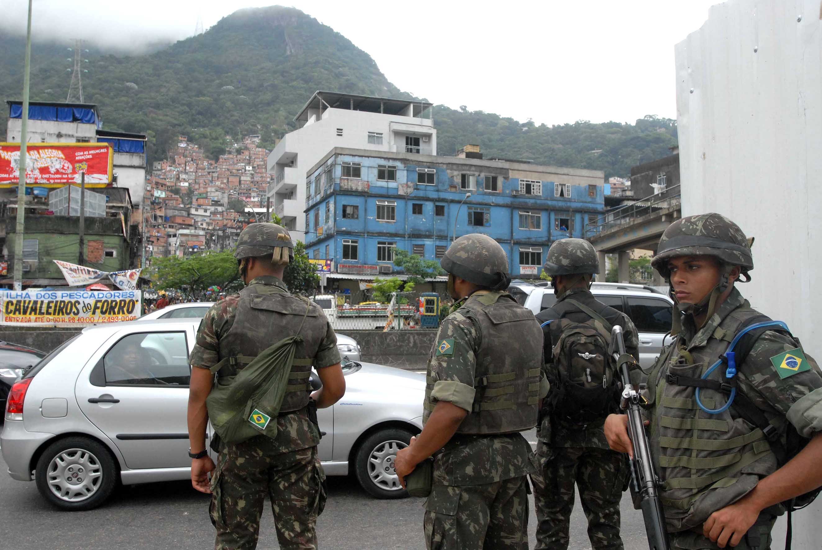 Rio de Janeiro - Soldiers during the occupation of Rocinha by the Army.